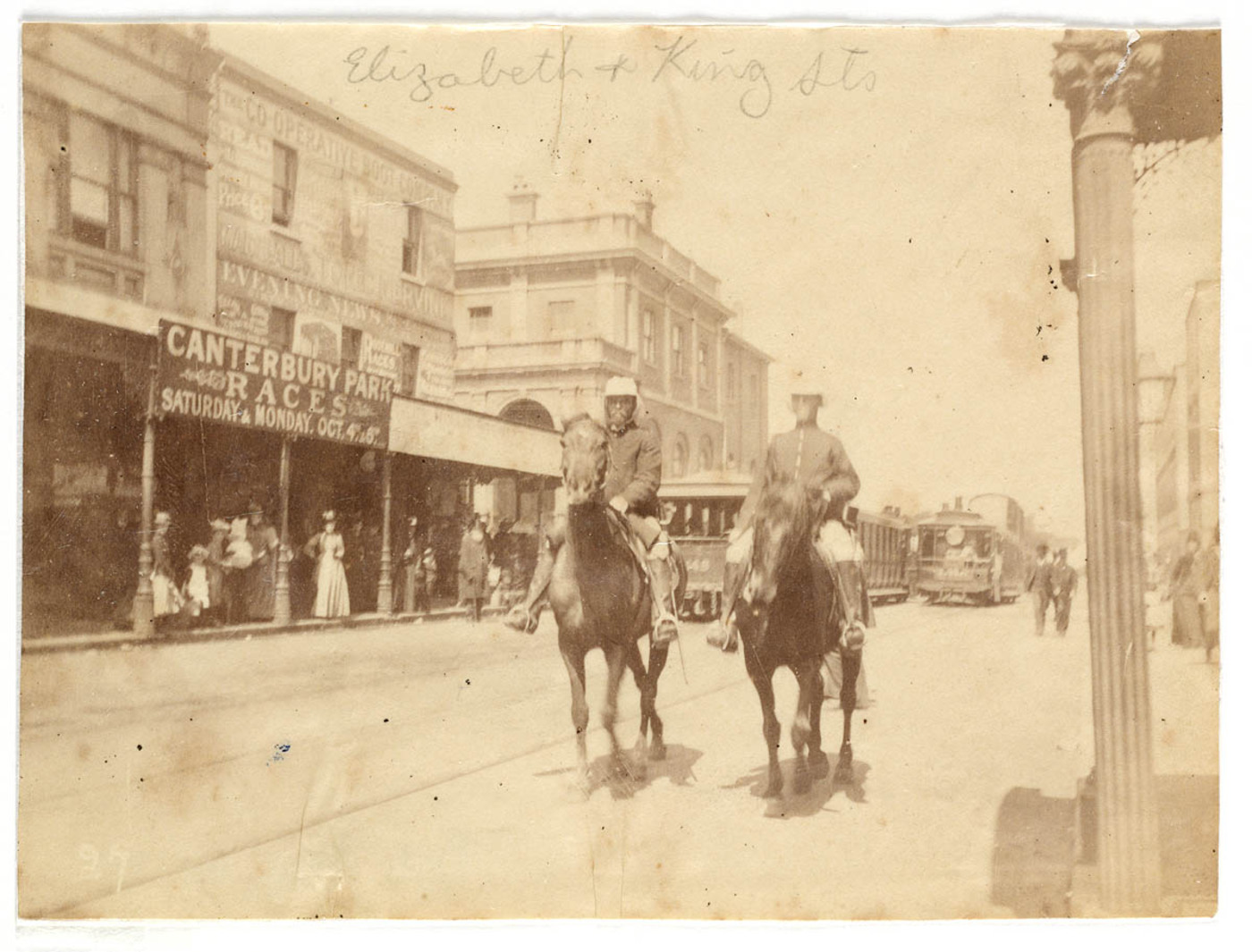 Format: Photograph Find more detailed information about this photographic collection: .au/item/itemDetailPaged.aspx?itemID=442936 Search for more great images in the State Library's collections: .au/search/SimpleSearch.aspx From the collection of the State Library of New South Wales